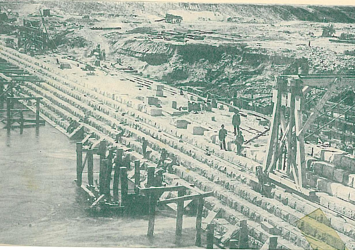 The Goulburn Weir under construction November 1889.